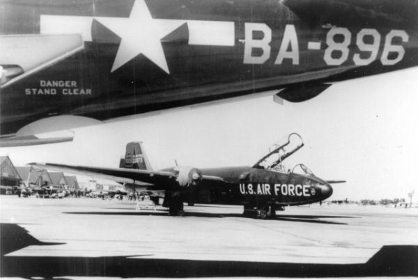 B-57 of the 3d Bombardment Wing at Misawa AB (6 Jan 56).